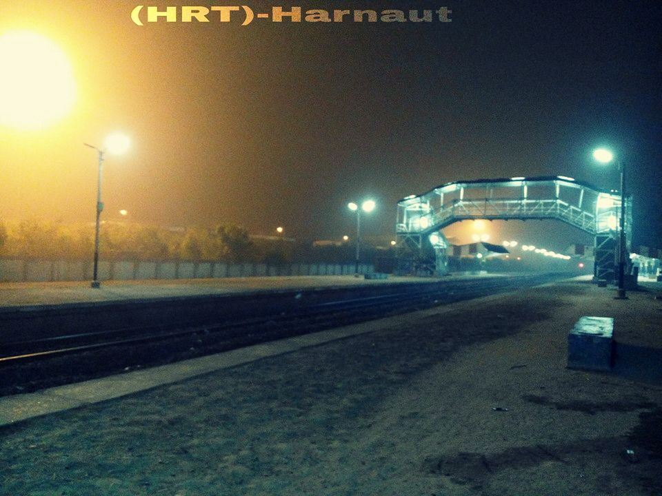 Night view Night_view_of_Harnaut_station, Harnaut, Bihar, India